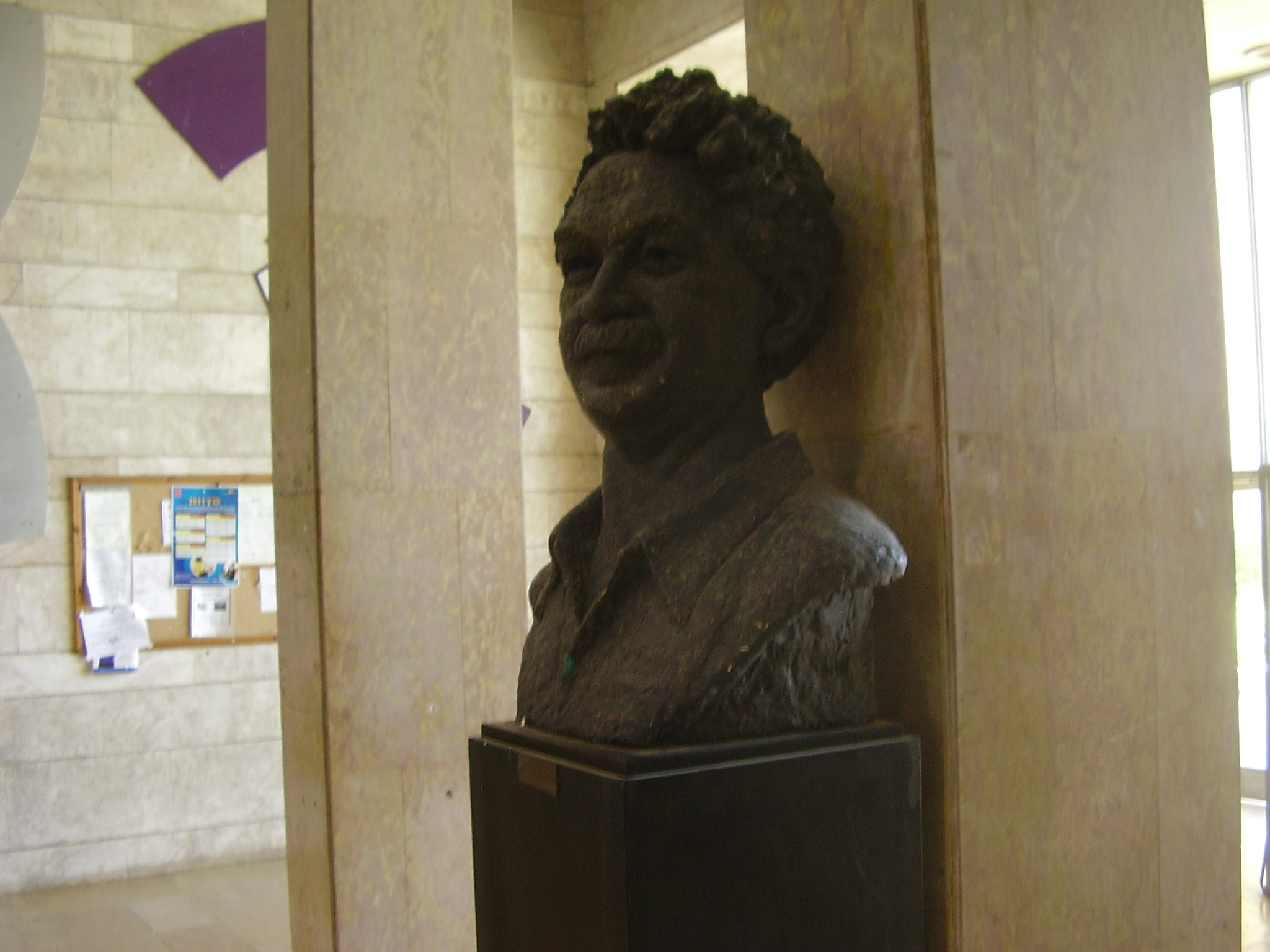 Katznelson statue in Histadrut House in Tel Aviv